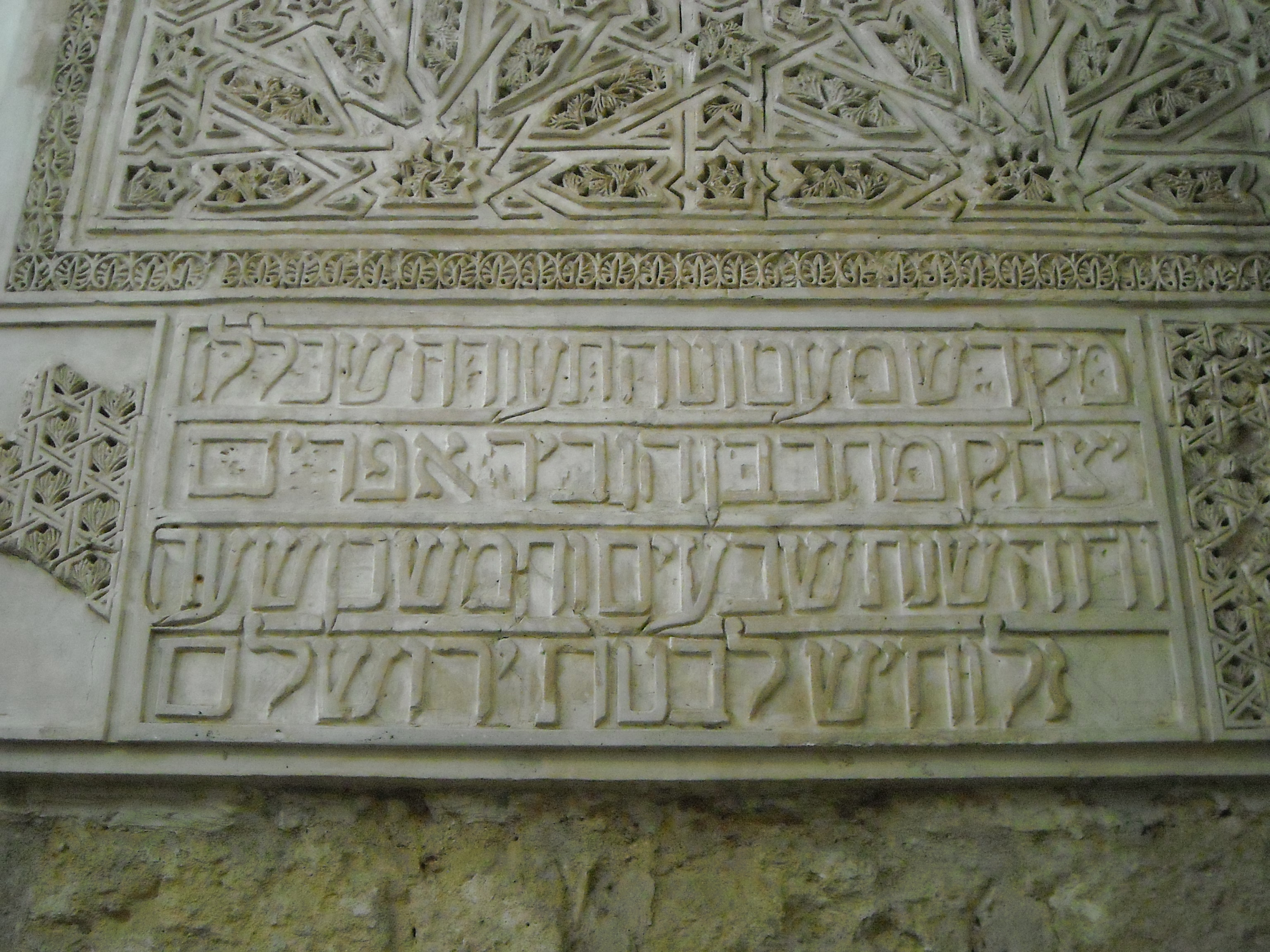 Synagogue of Córdoba, Spain